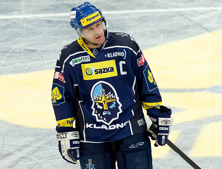 Tipsport extraliga; 20-Oct-2013 17:00; 14th round HC Slavia Praha 1:0 (0:0, 1:0, 0:0) Rytíři Kladno